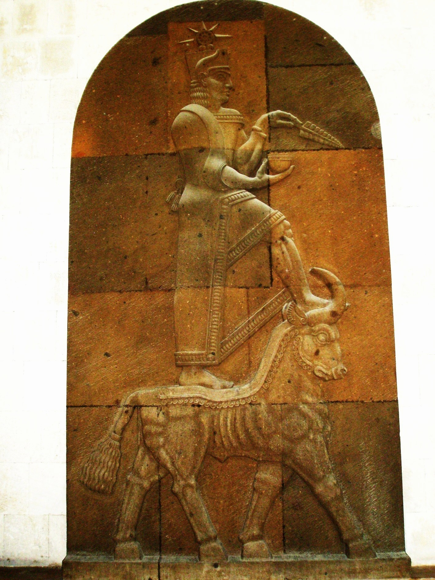 Depiction of the Urartian god Teisheba.